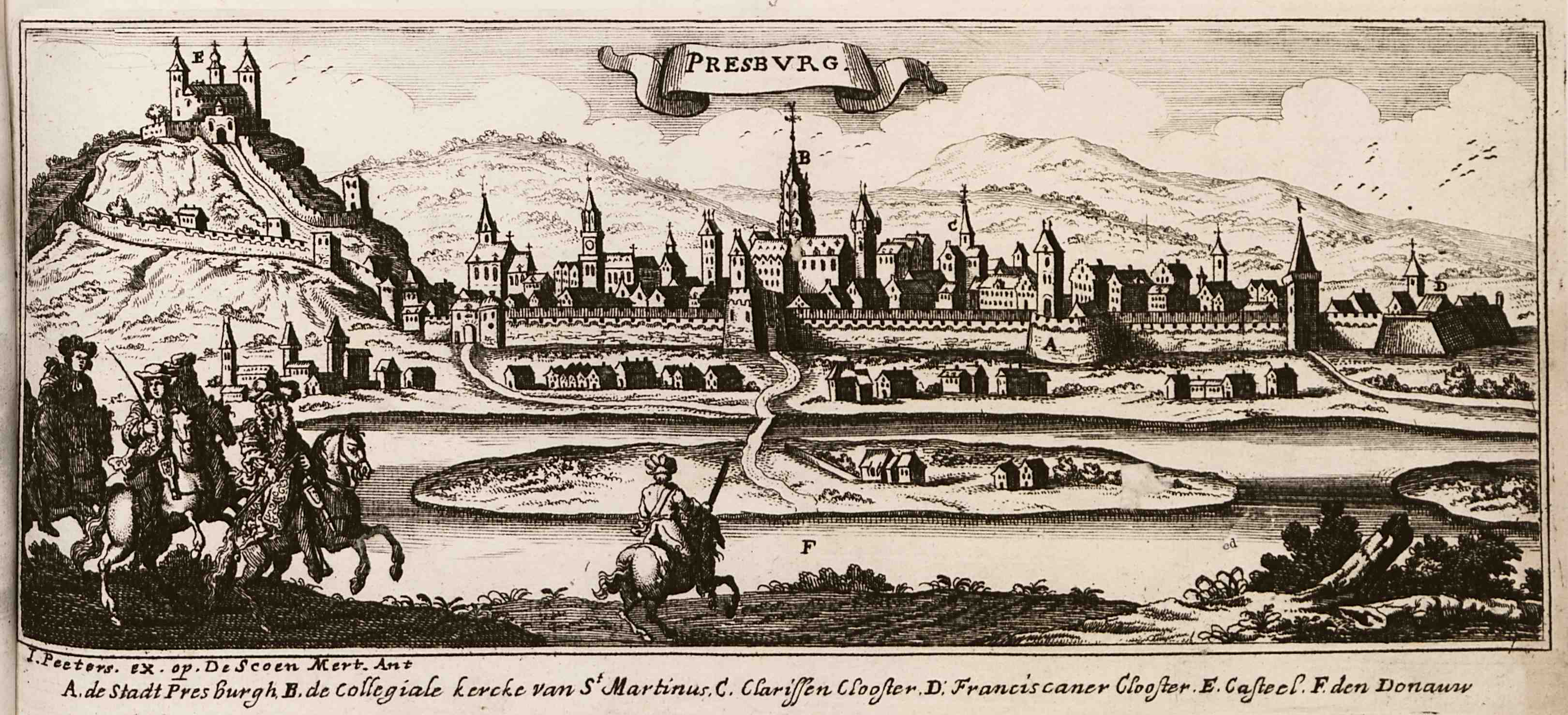 Jacob Peeters. Korte Beschryvinghe, Ende Aen-Wysinghe der Plaetsen in desfn Boeck, met hunnen teghenwoordigen Standt, pertinentelijck uytghebeldt, in Oostenryck, Antwerp, 1686